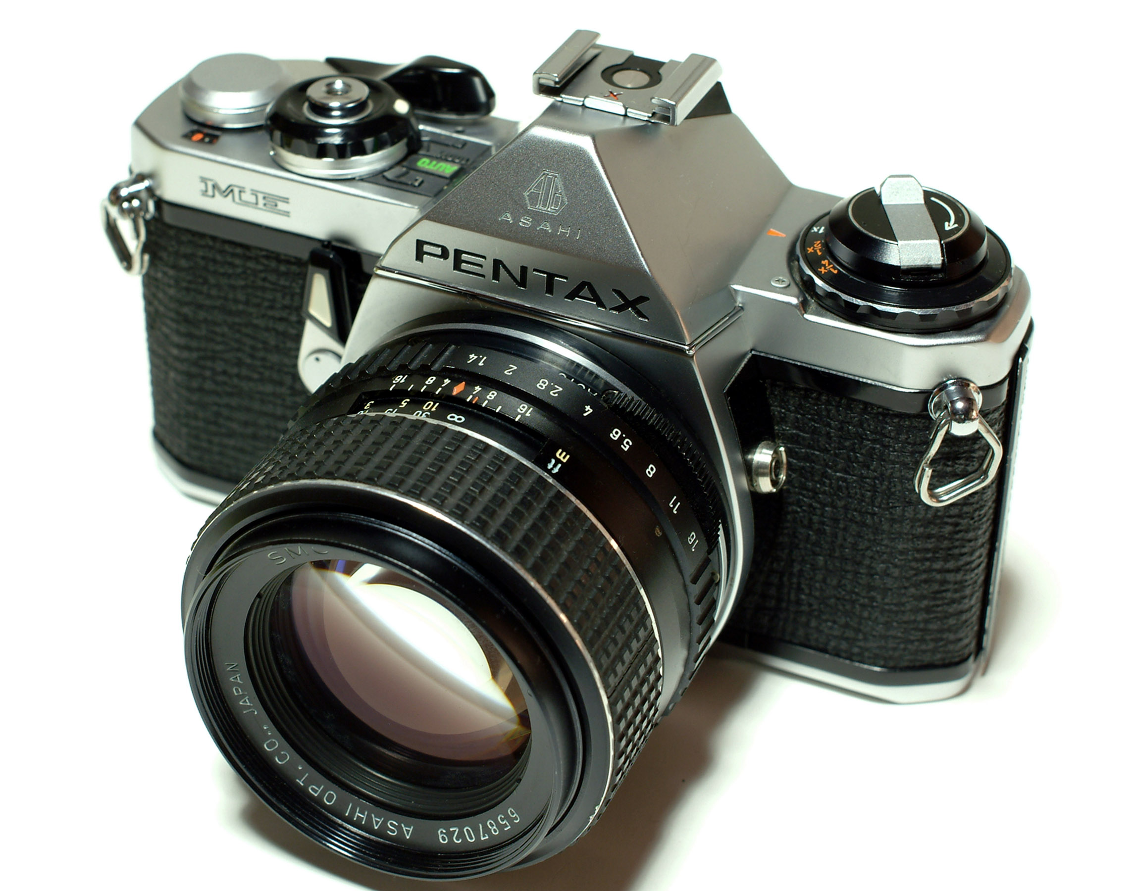 Pentax ME w/SMC-K50mmF1.4